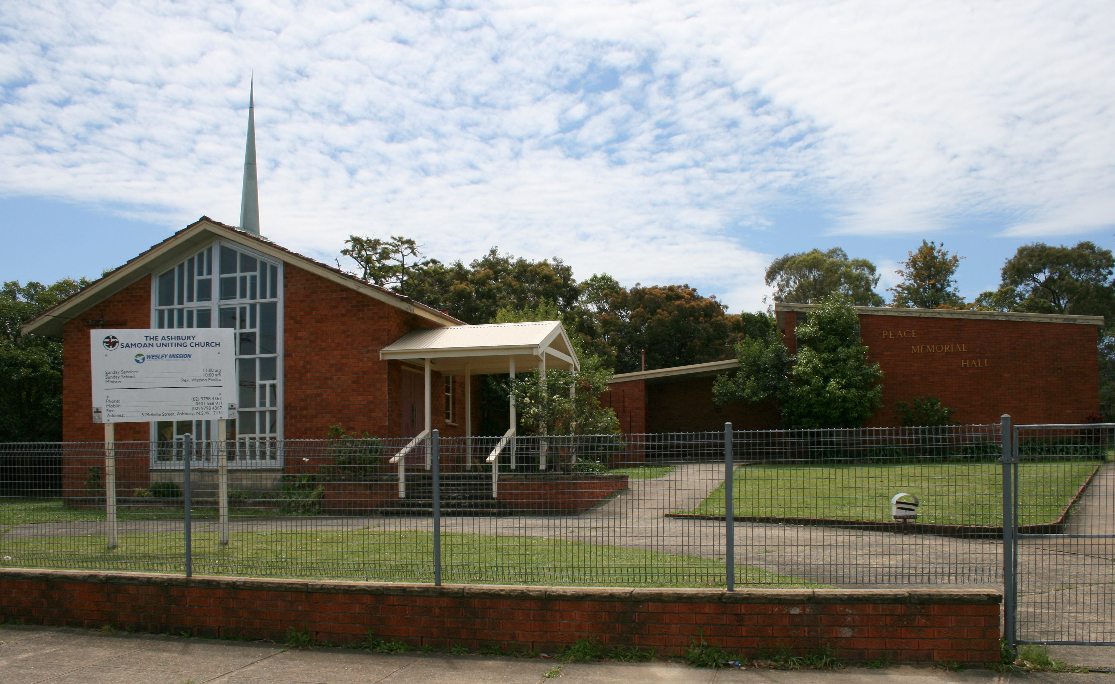 The Ashbury Samoan Uniting Church, in Ashbury, New South Wales (NSW), Australia.